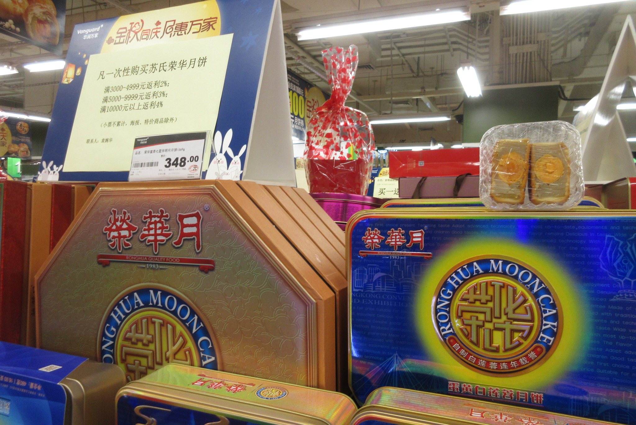 SZ 深圳市 Shenzhen 福田 Futian 福中路 Fuzhong Road 國際人才大廈 Rencai Building 華潤萬家 Vanguard CR Supermarket food product mooncakes in Sept 2017